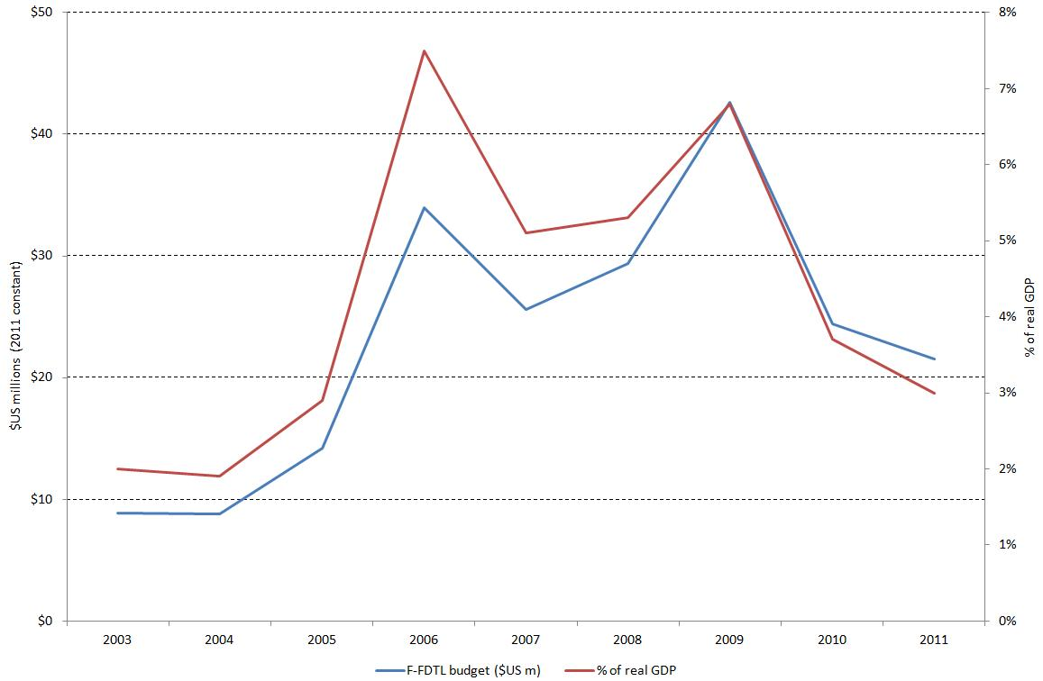 The budget for the Timor Leste Defence Force (F-FDTL) in constant 2011 $US and as a proportion of real GDP from 2003 to 2011. Source: Defence Intelligence Organisation (2011), Defence Economic Trends in the Asia-Pacific, page 12